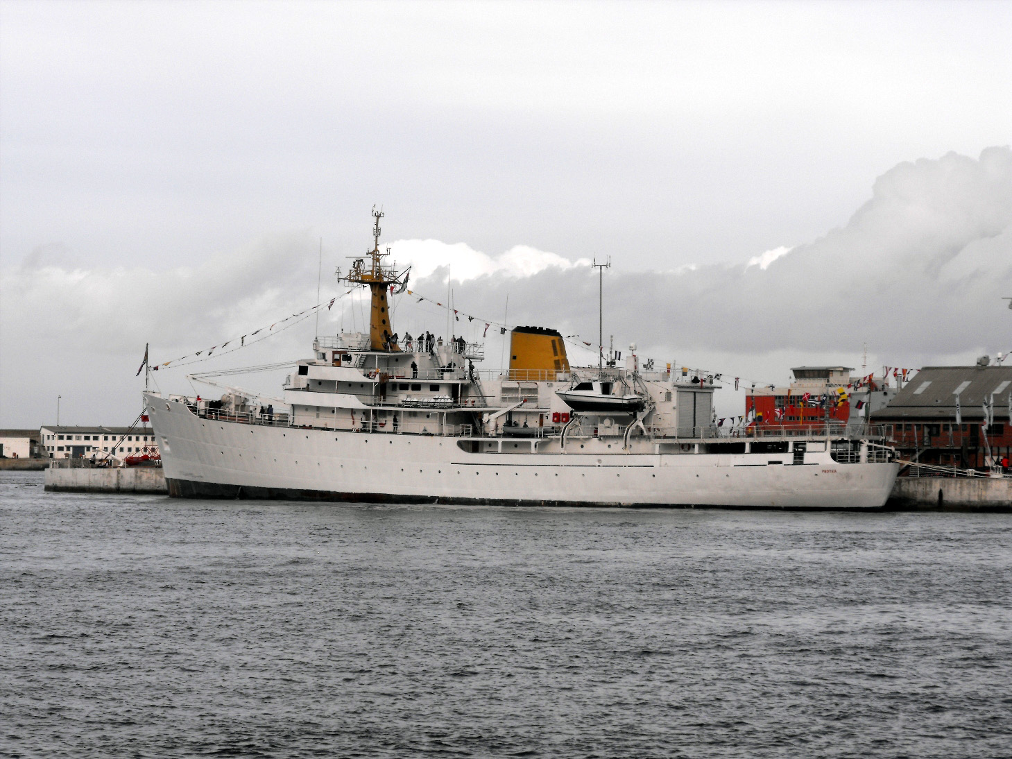 The SAS Protea